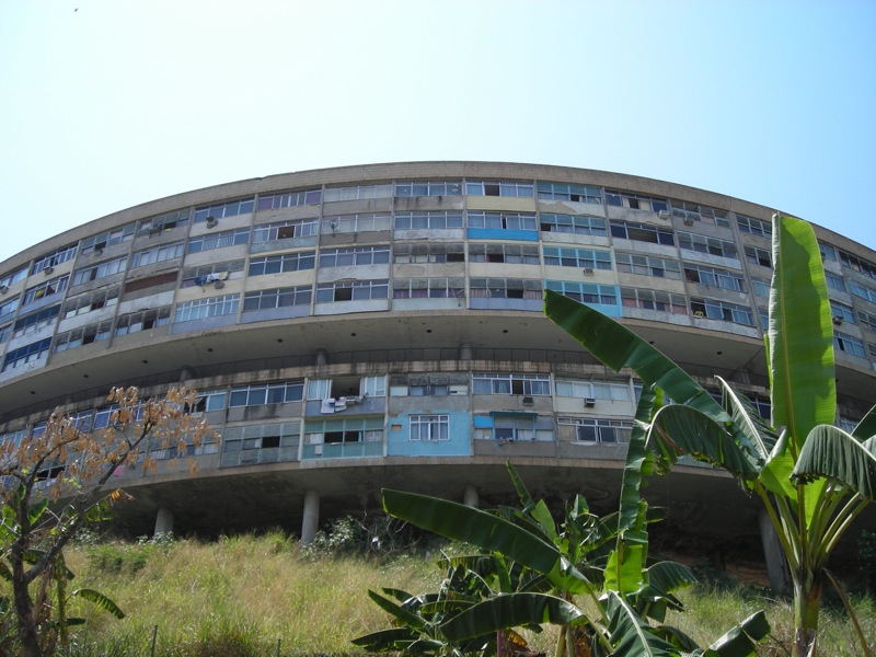 Conjunto Residencial Mendes de Moraes ("Pedregulho") — in the Benfica neighborhood of Rio de Janeiro, Brazil. Designed by Modernist architect Affonso Eduardo Reidy.